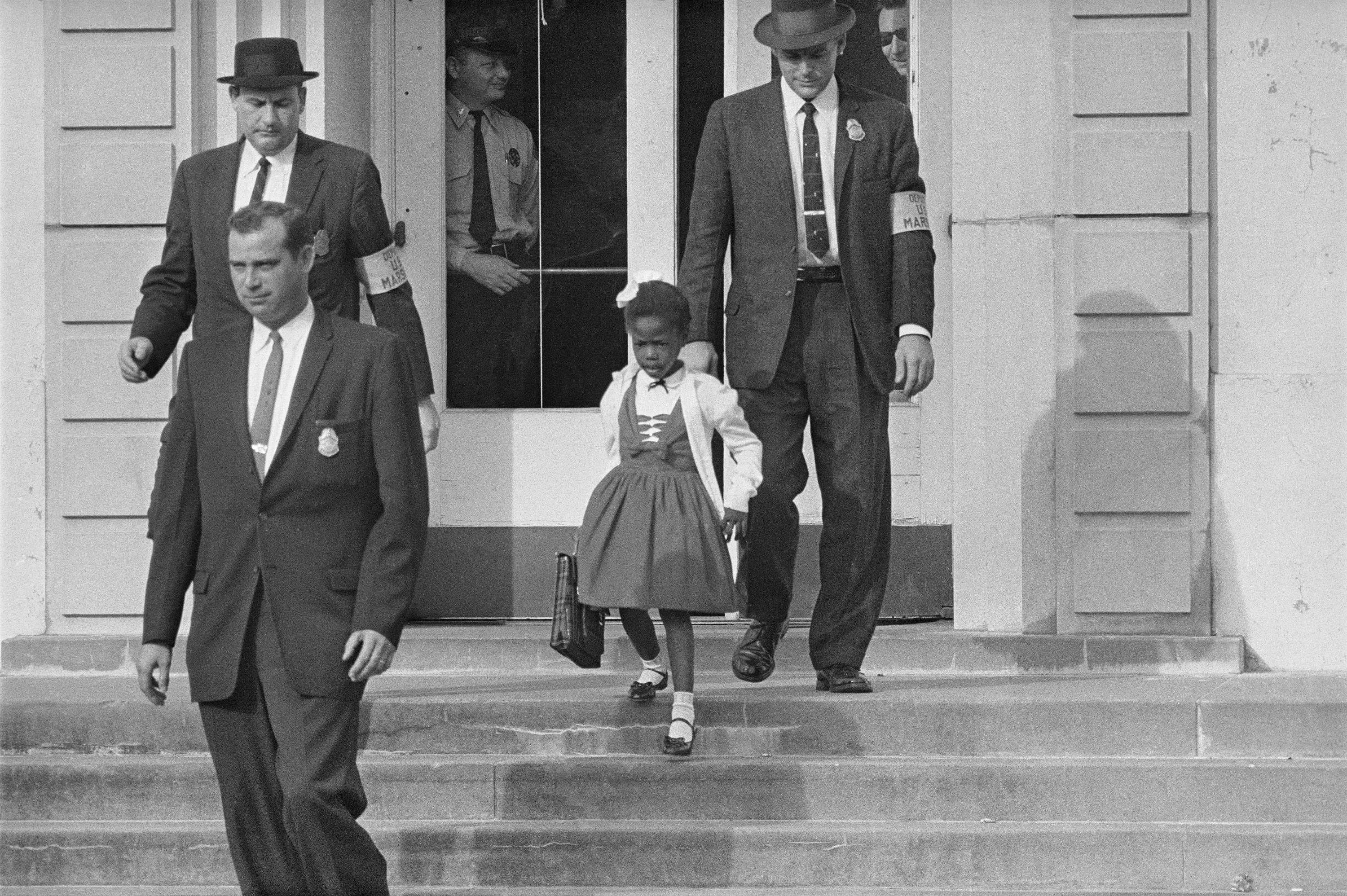 William Frantz Elementary School, New Orleans, 1960. "After a Federal court ordered the desegregation of schools in the South, U.S. Marshals escorted a young Black girl, Ruby Bridges, to school." Note: Photo appears to show Bridges and the Marshals leaving the school. She was escorted both to and from the school while segregationist protests continued.